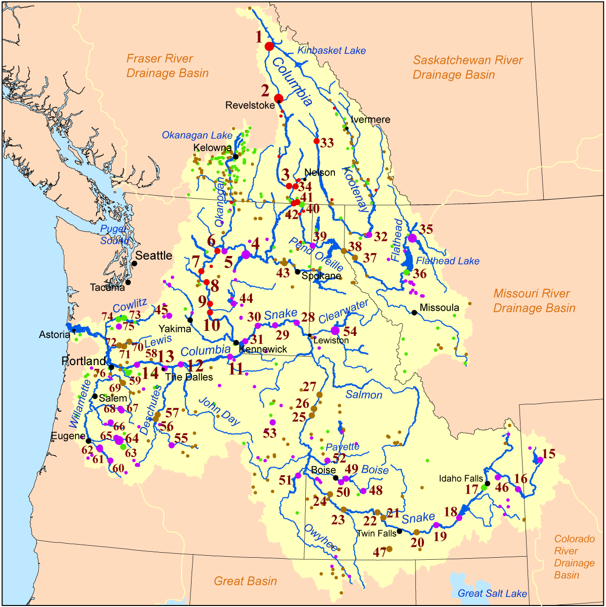 This is a map of the dams within the Columbia River drainage basin. The size of the circles are based on the height of the dam. Small circles are 50 meters or less, medium are 50 to 150 meters and large are over 150 meters. The color of the circles is based on dam ownership: U.S. Federal government Public Utilities State, provincial, or local government Private The key to the dam names is below.